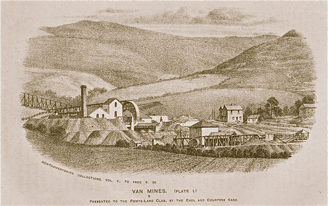 Van Lead Mines 1872